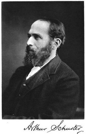 Picture of Sir Arthur Schuster, the British physicist.